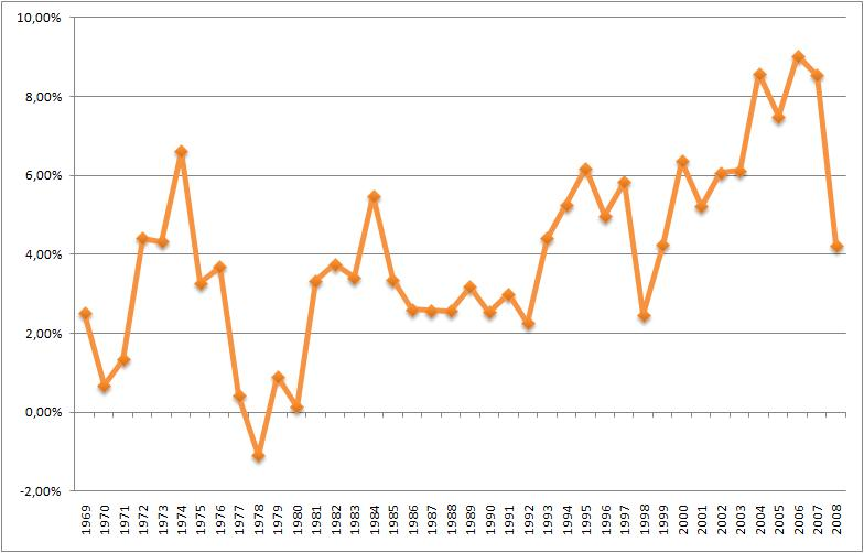 Dutch current account in percentage of GDP(1969-2008)